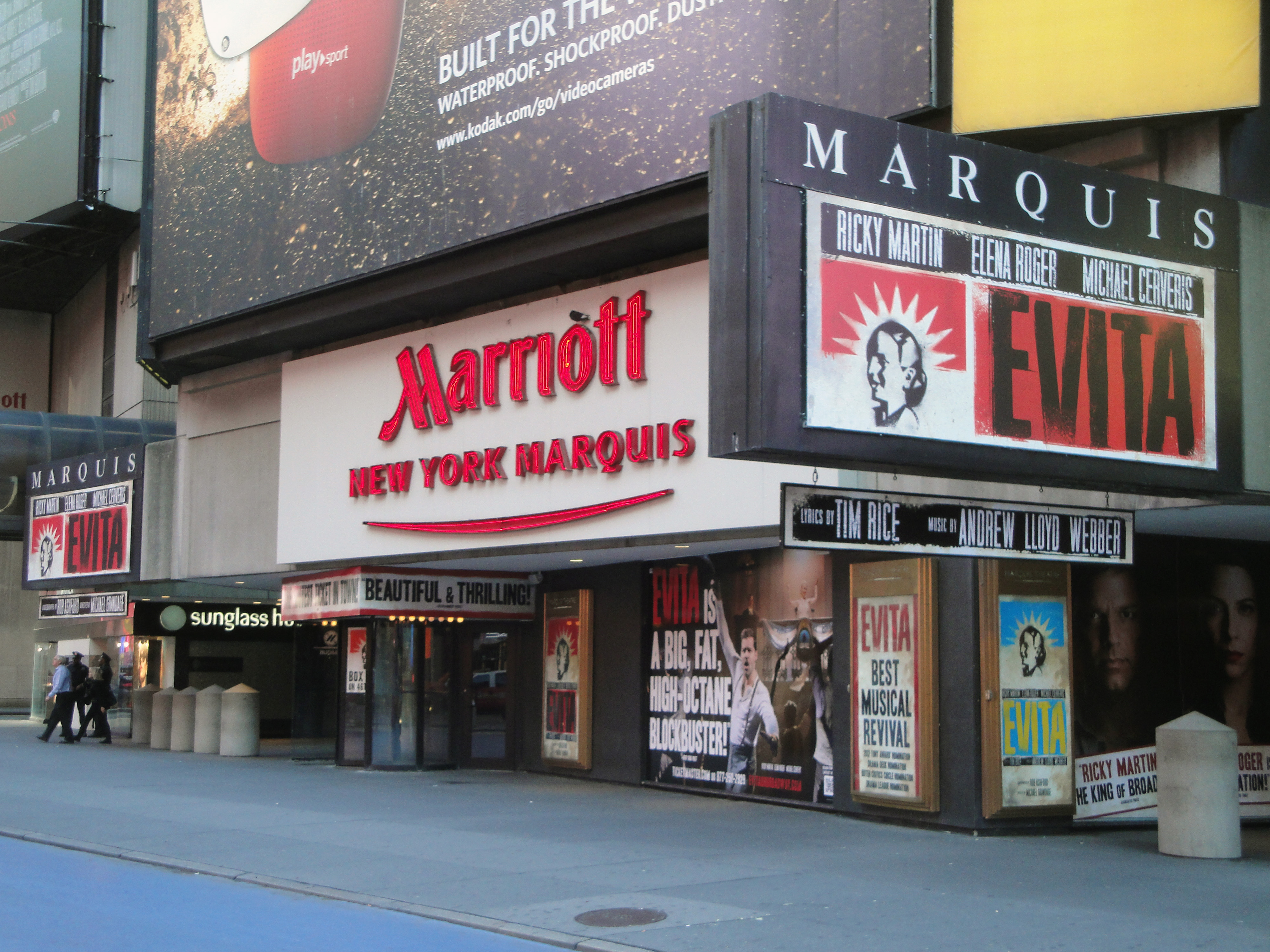 'Evita' at the Marquis Theatre in New York City.